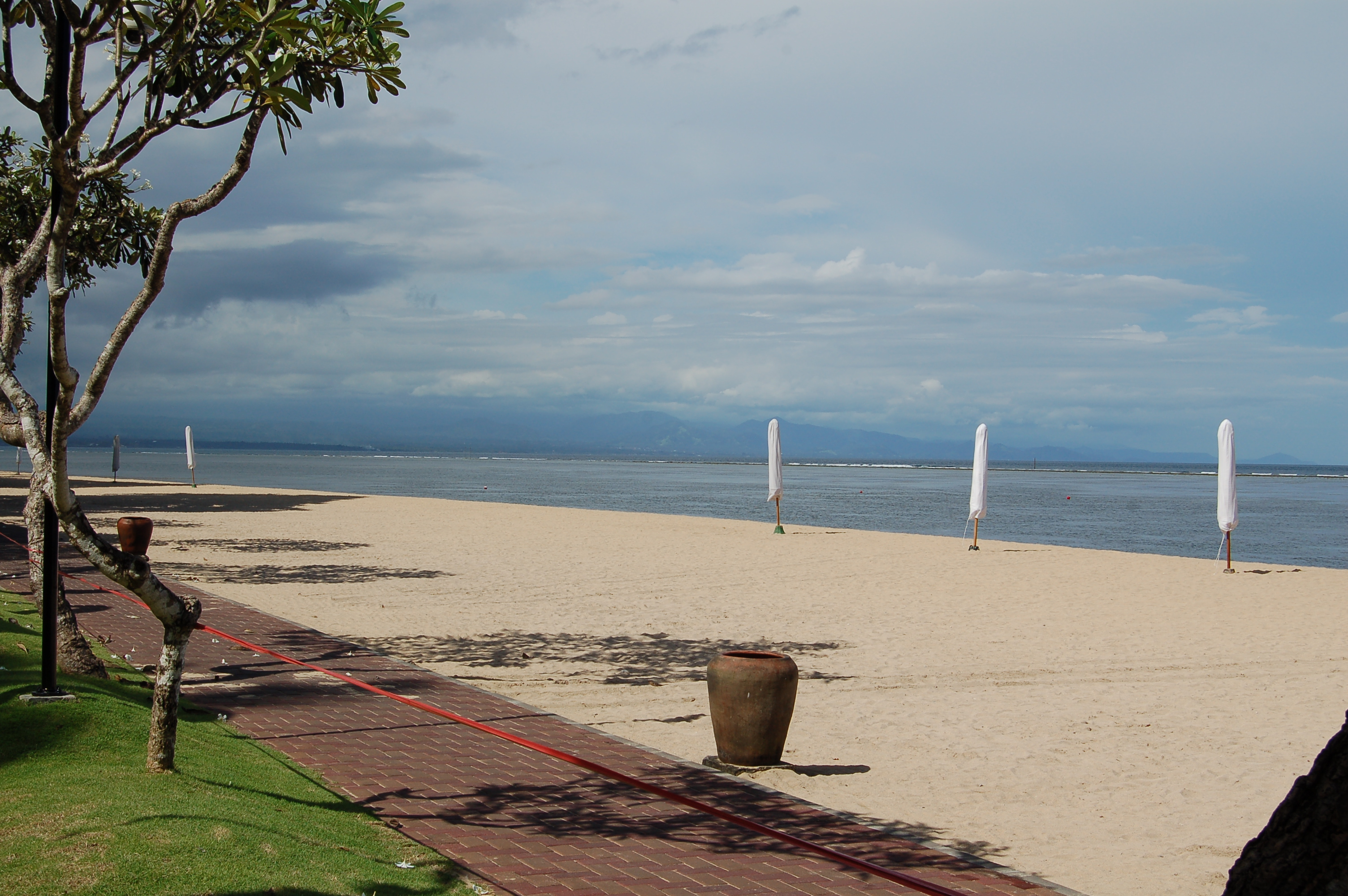 Sanur Beach looking towards Mt Agung (obscured by clouds) in Bali